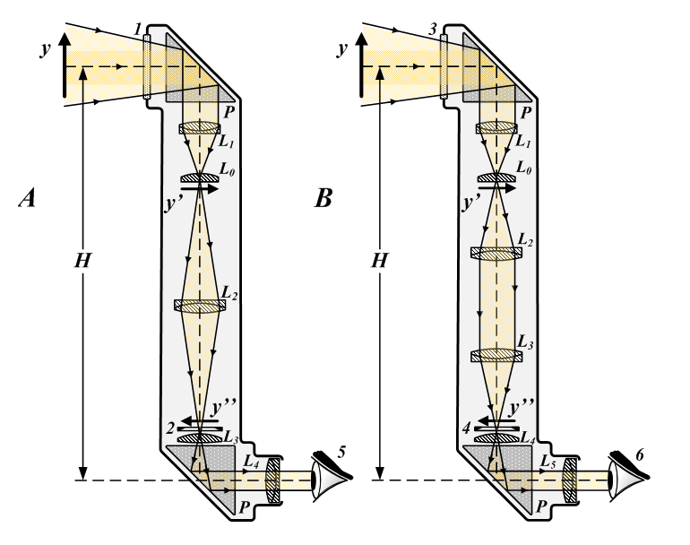 Principle of the lens periscope. A - Periscope using a single lens (L2) to correct image.B - Periscope which uses two lenses (L2-L3) to correct image.1-3 - Periscope window.2-4 - Field stop or reticle.P - Right–angled prisms (or plane mirrors).L1 - Objective lens.L2 - for A - L2 - L3 - for B - Image erecting lens.L3 - L4 -for A - L4-L5- for B - Eyepiece.L0 - Field lens.y - Distant object.y' - Real, inverted, diminished image. y" - Erect real image - same size as y ' if distance y '- y" is equal 4f L2 for A, and for B if f - L2-L3 are equal. See: Relay lens